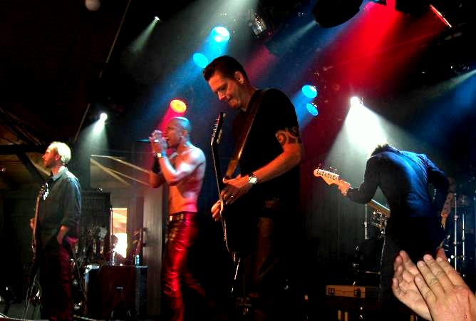 Swedish metal band Enter the Hunt at Hultsfredsfestivalen 2007. Björn Flodkvist (guitar), Krister Linder (vocals), Mats Ståhl (guitar), Ulf "Rockis" Ivarsson (bass) and Stefan Kälfors (drums)